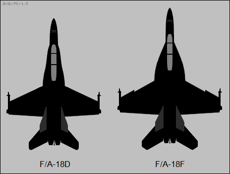 Comparison between the F/A-18D and F/A-18F